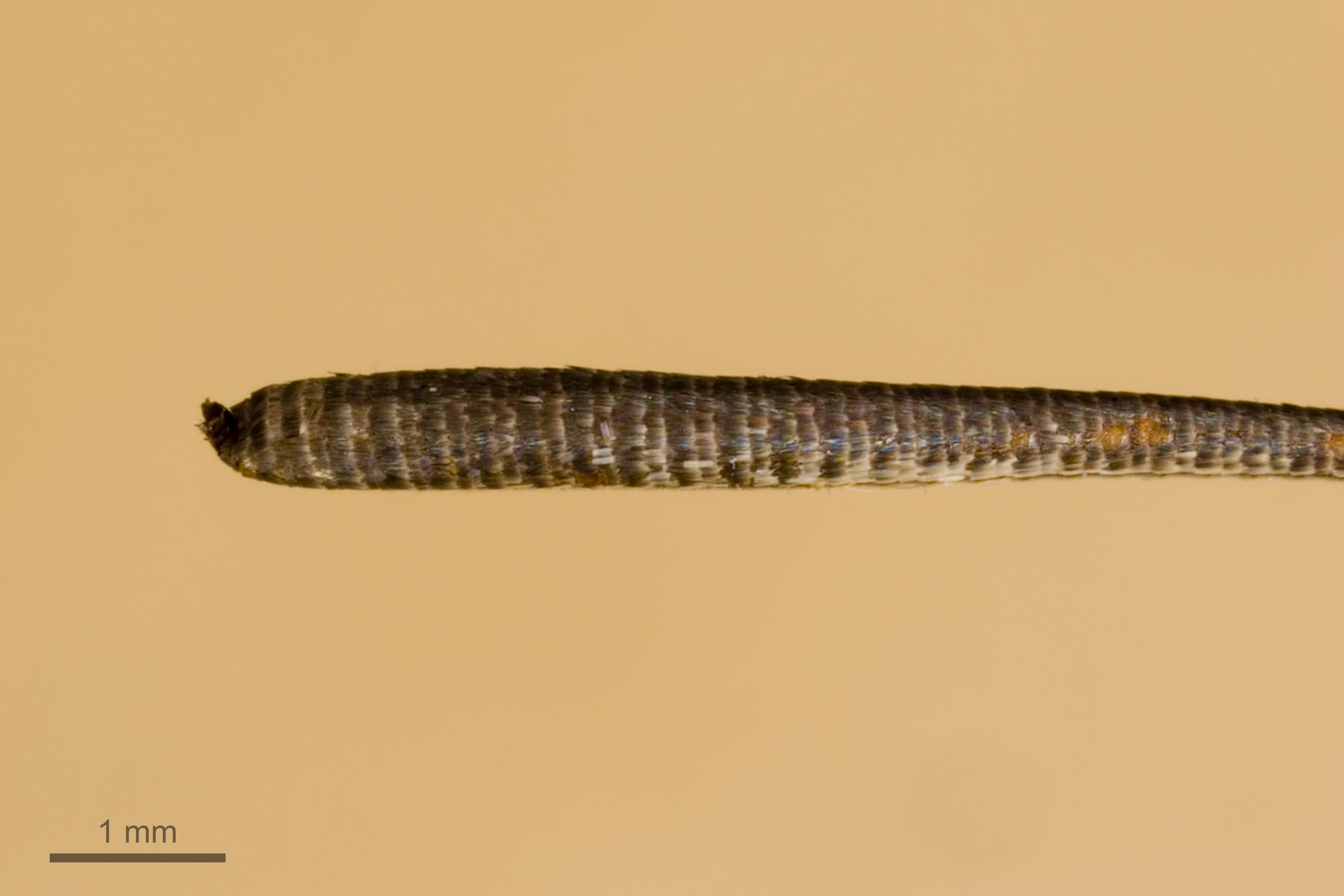 Hummingbird Hawk-moth